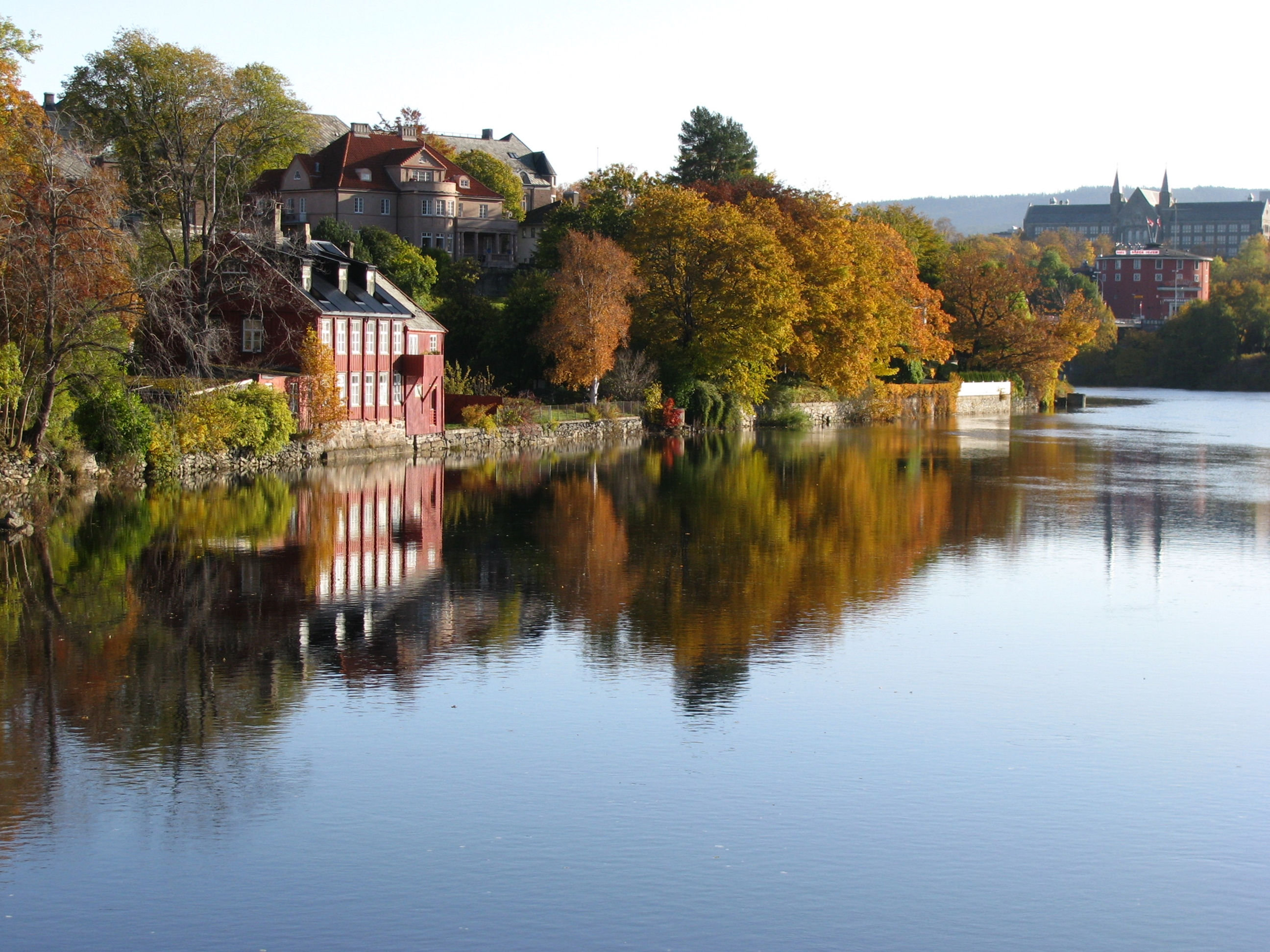 Autumn foliage along Nidelva (river) in Trondheim, Norway. View from pedestrian bridge looking east (downstream). 21.October 2009.